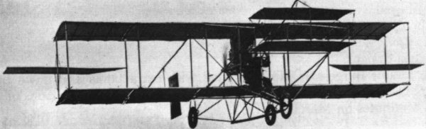 Curtiss Photo 1196 (circa 1914)